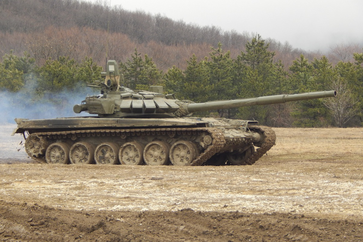 126th Coastal Defence Brigade.